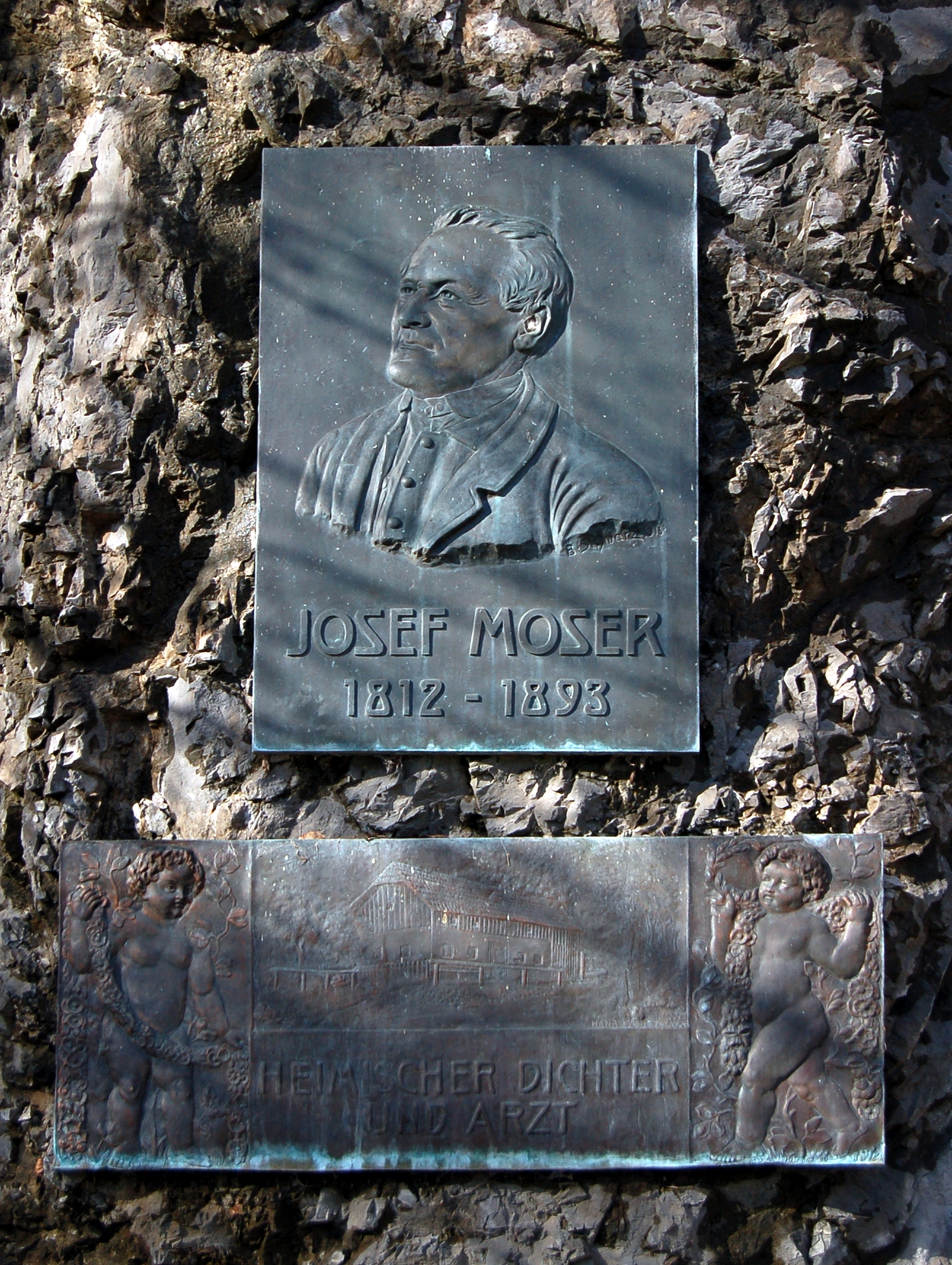 Memorial for Josef Moser, 1812-1893, physician and poet, in Klaus an der Pyhrnbahn, Upper Austria.